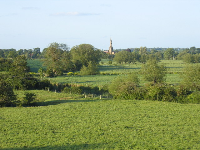 Distant view of All Saints Church, Sherbourne. Seen from near the middle of this square, with the course of the River Avon marked by the bushes as it meanders across the fields.